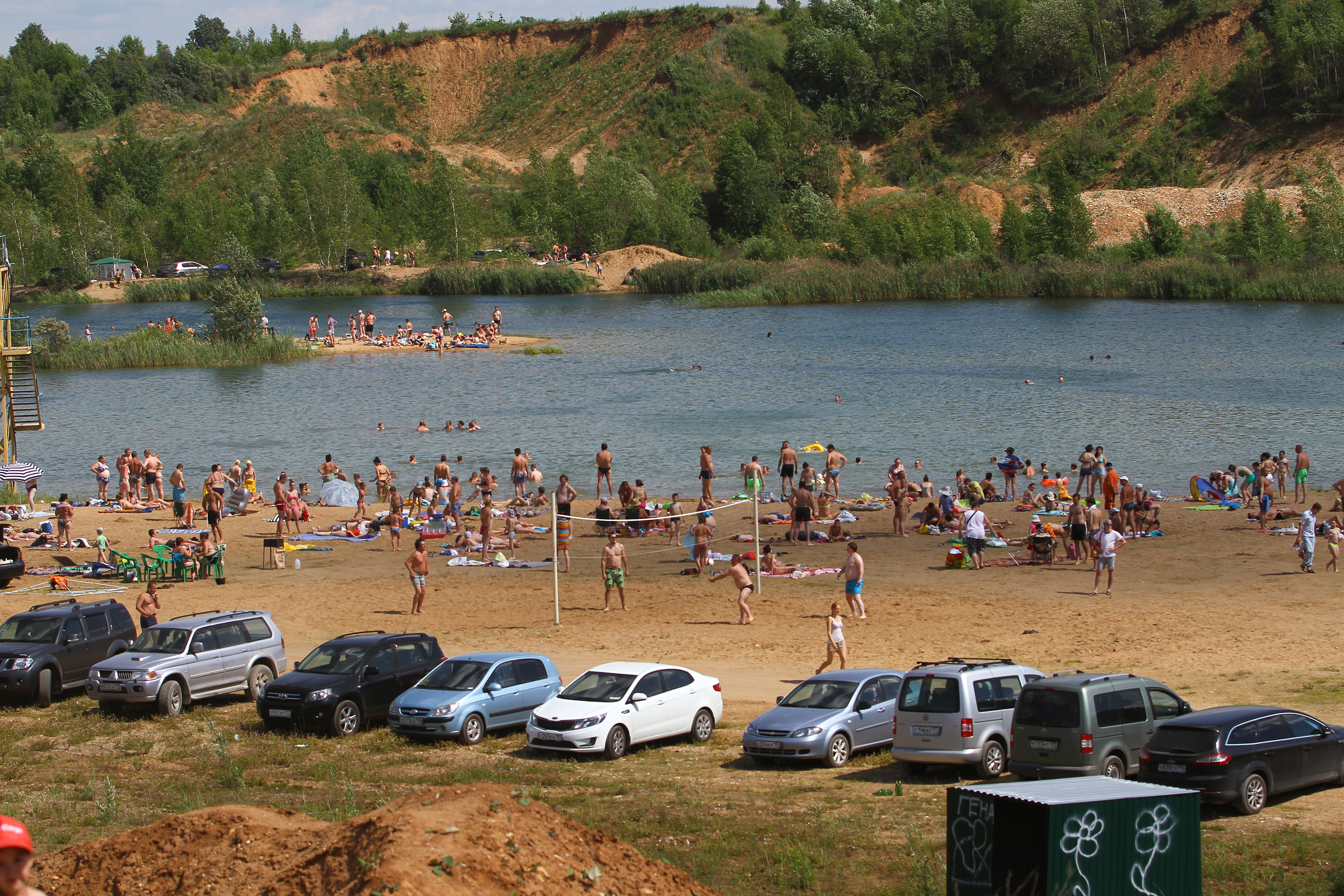 Ruzsky District, Moscow Oblast, Russia